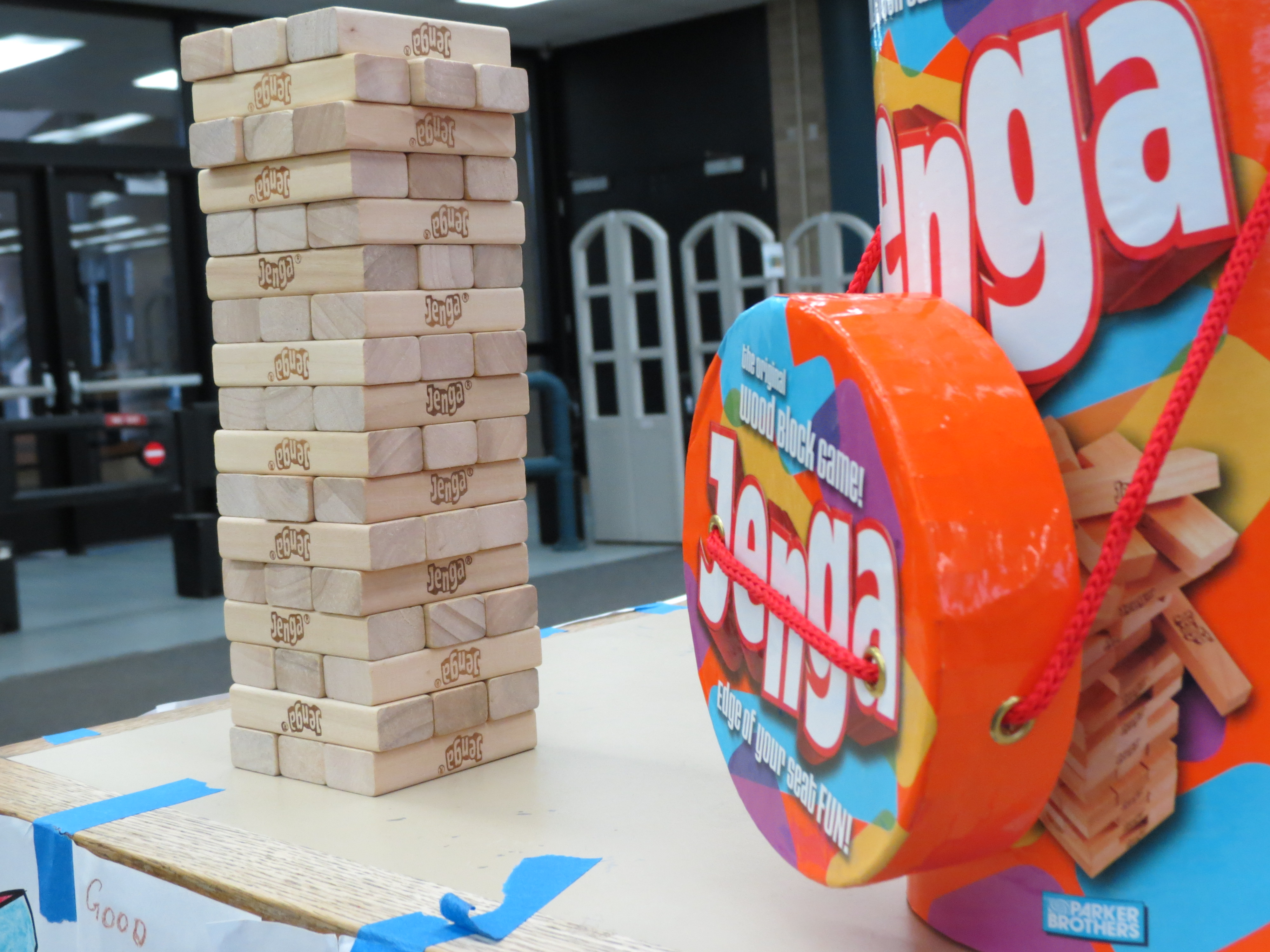 Mental Acuity Monday! #StudyStrong